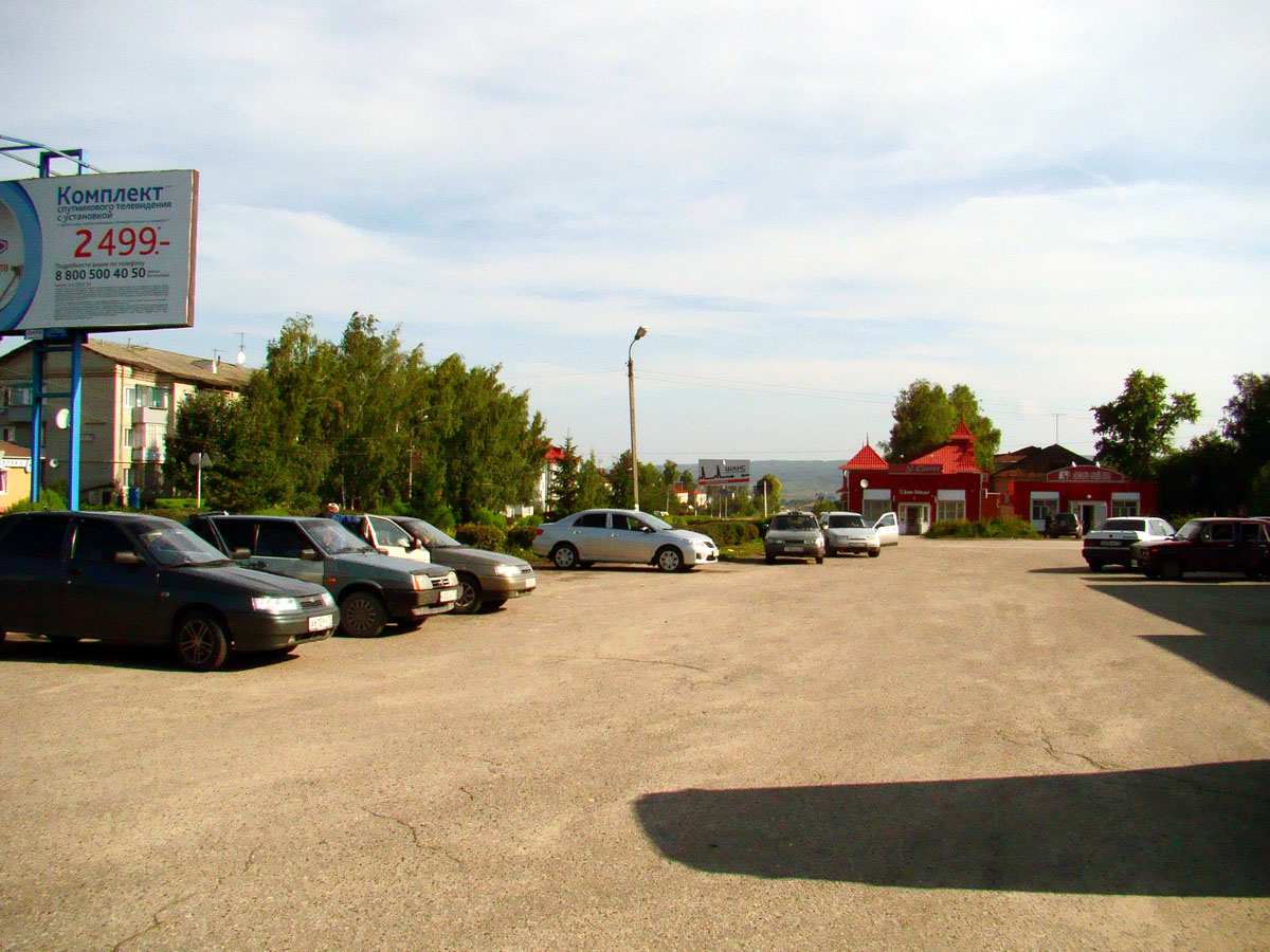 Karsun town. Russia, Ulyanovsk Region.